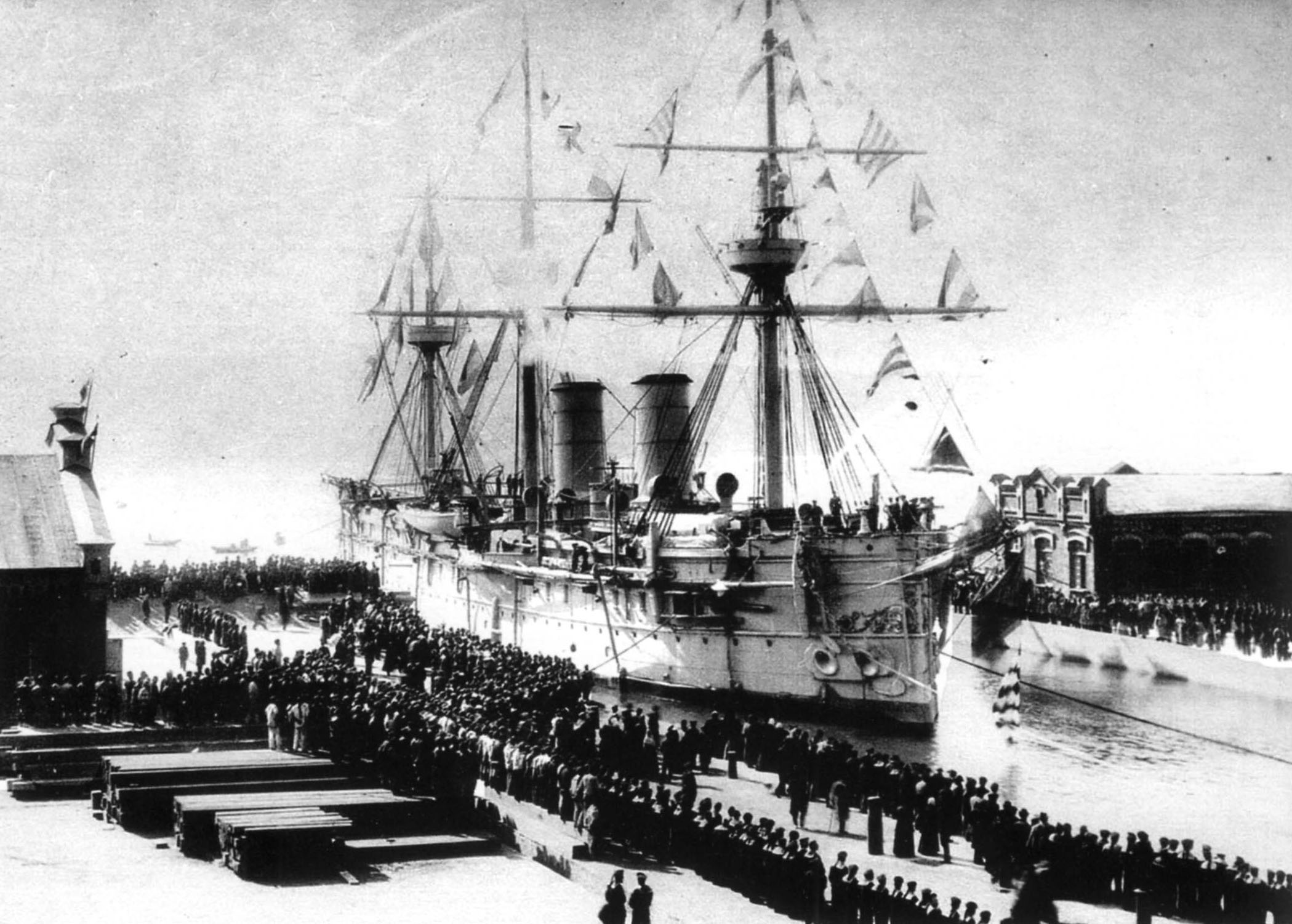 Imperial Russian frigate Dmitriy Donskoy (1880-1905), 7 Oct. 1897.